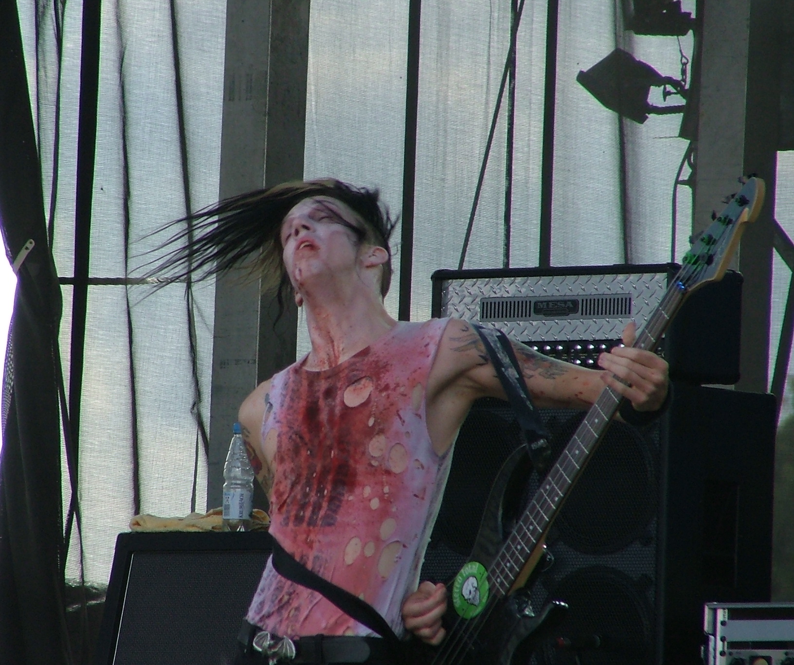 American horror punk band Blitzkid at the Summer Breeze in Dinkelsbühl